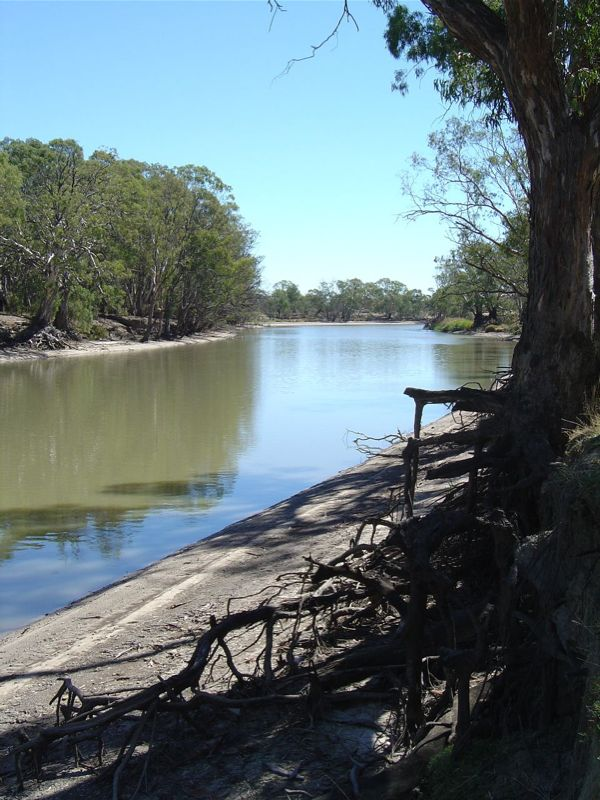 Once a jolly swagman camped beside a billabong....